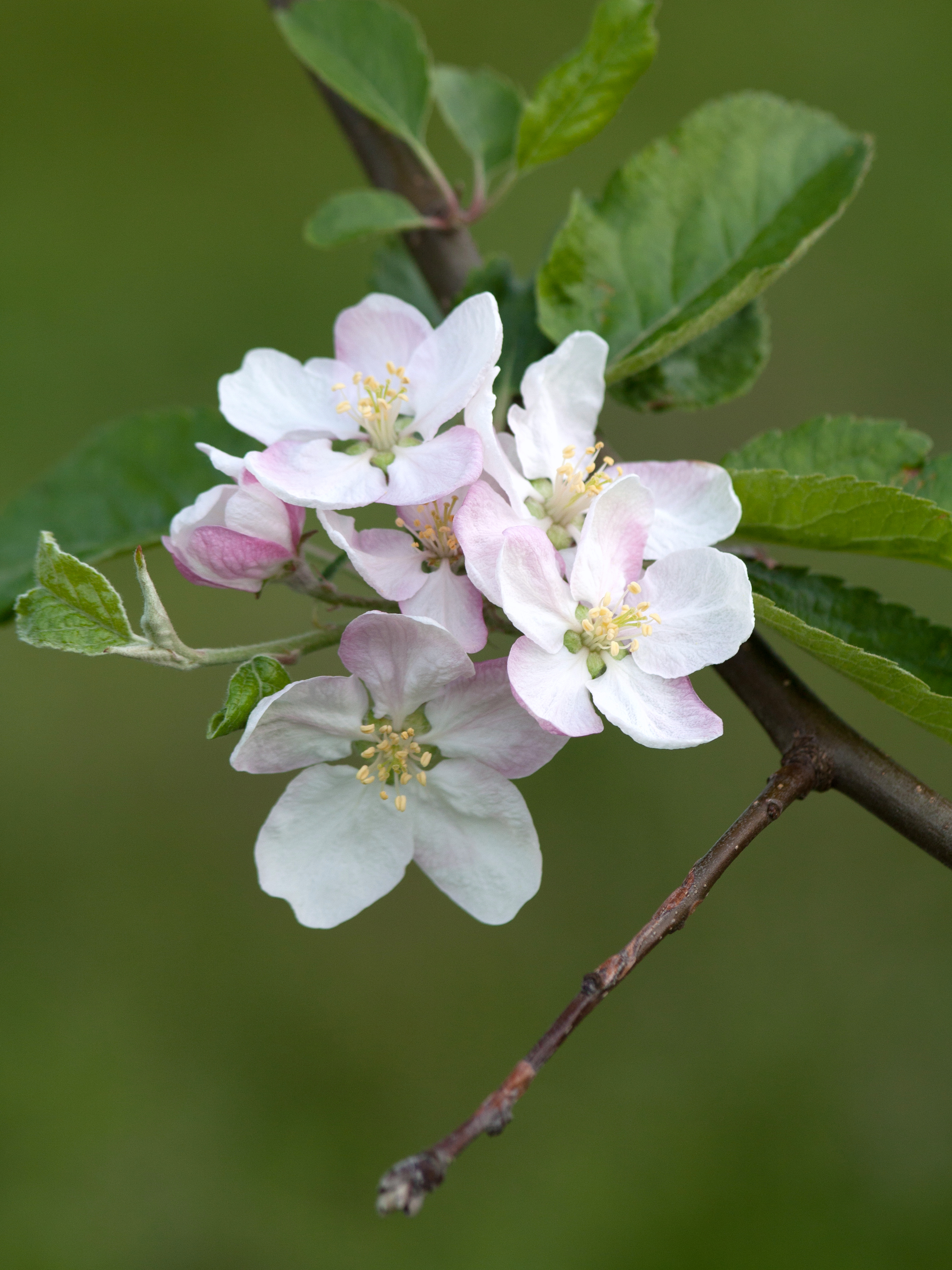 Flowers of Malus domestica.